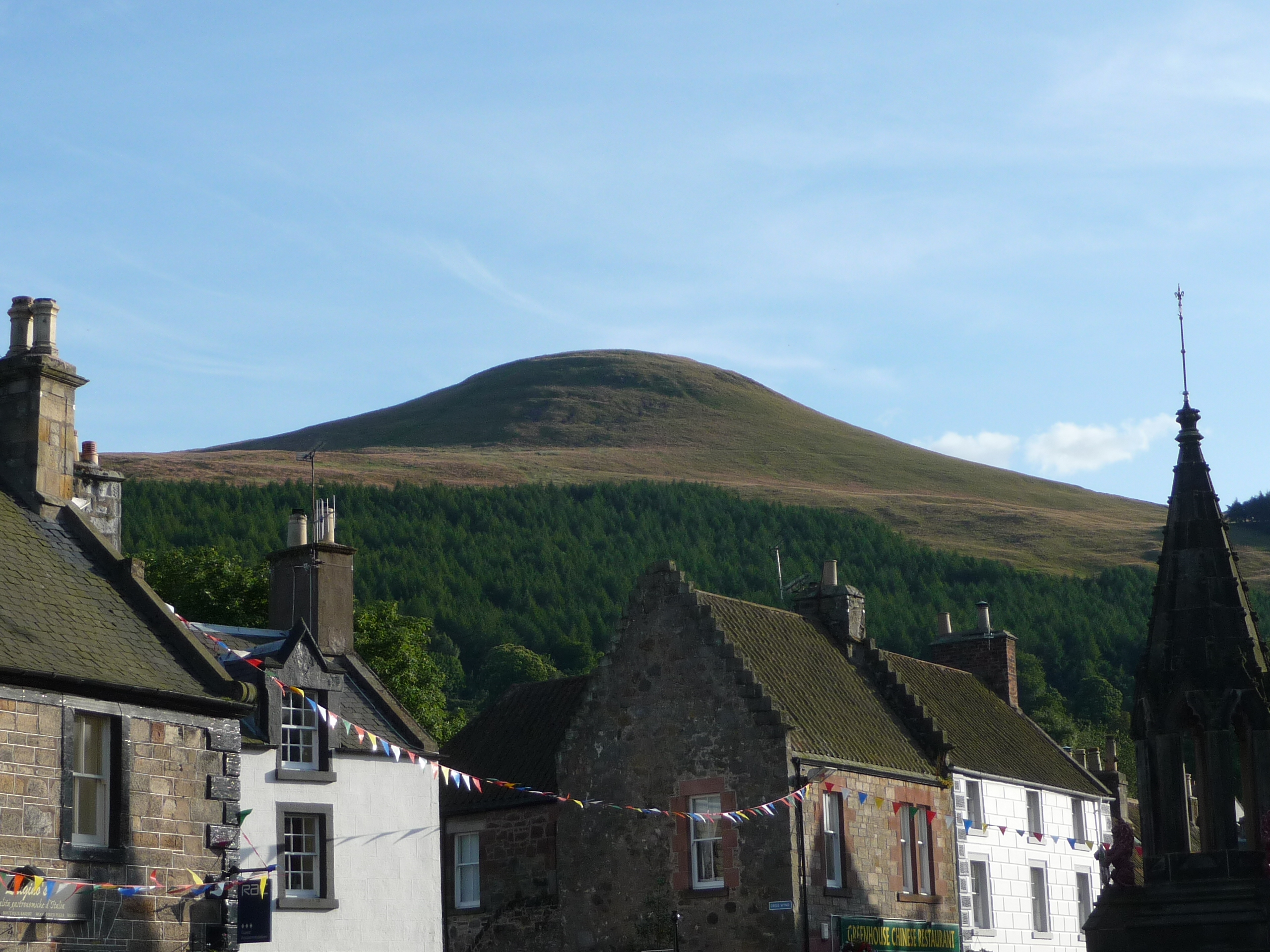 Hill near Falkland, Fife in Fife, Scotland